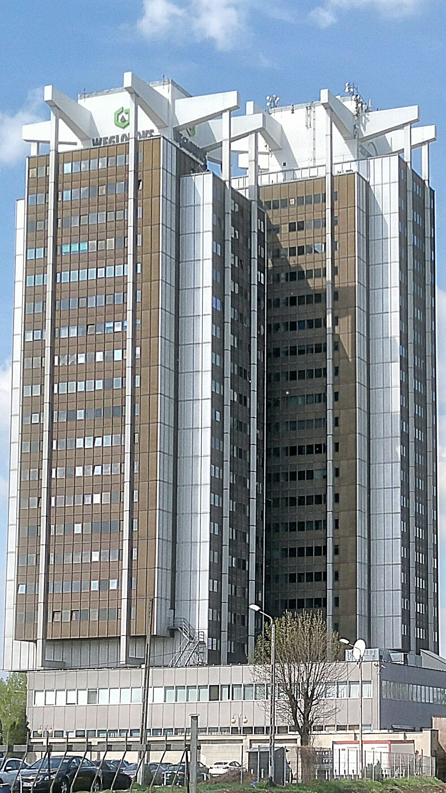 Stalexport Skyscrapers, Katowice 25 April 2018, hour 11:40, from Sokolska Street.